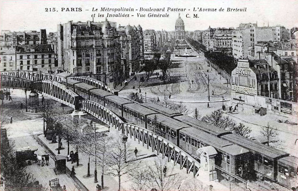 Paris - View of Boulevard Pasteur. Old postcard.